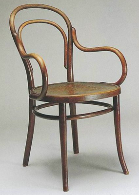 Thonet-modell No. 14. Design created in 1859